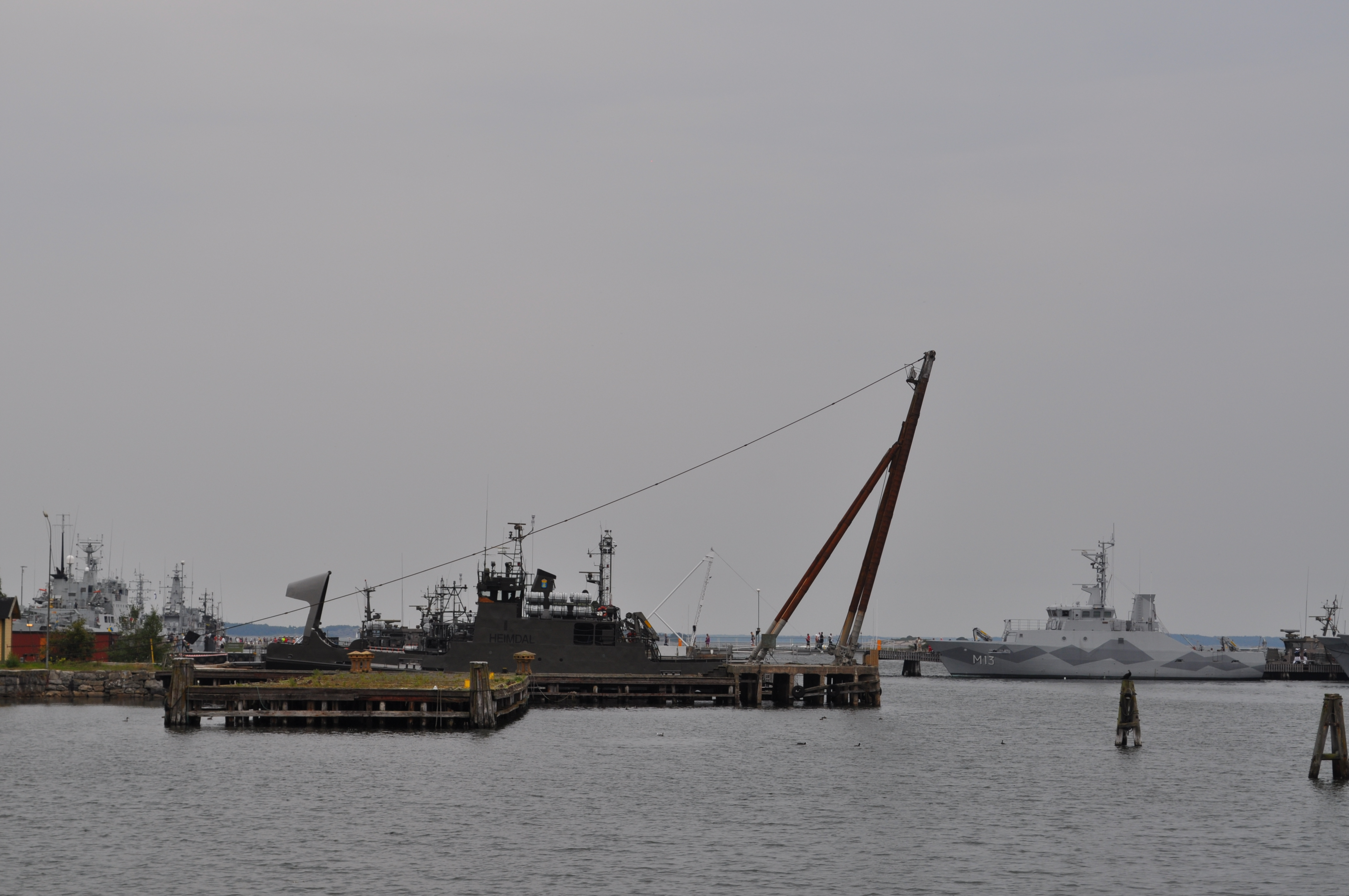 The Careening Wharf on Karlskrona naval base